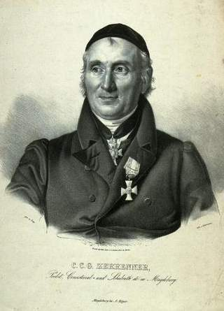 Portrait of Carl Christoph Gottlieb Zerrenner (1780 - 1851), German educator